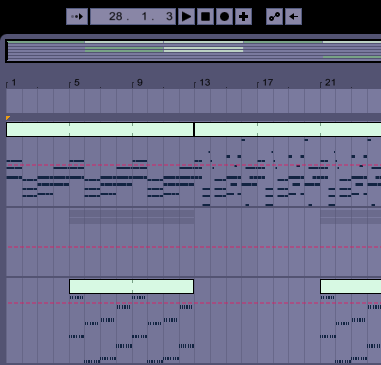 Ableton Live